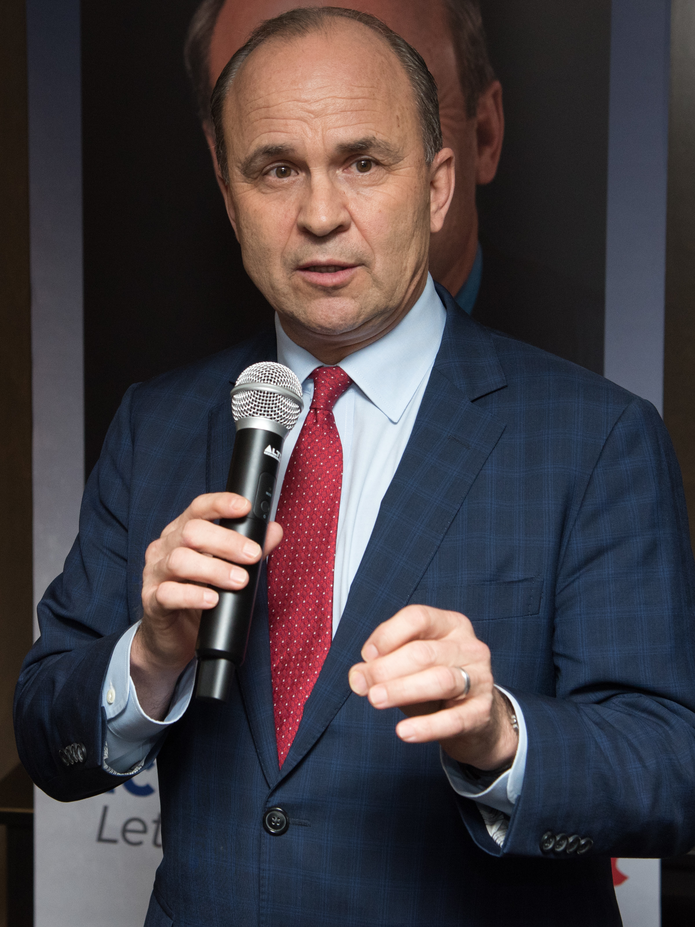 Photo of Canadian Conservative leadership candidate Rick Peterson